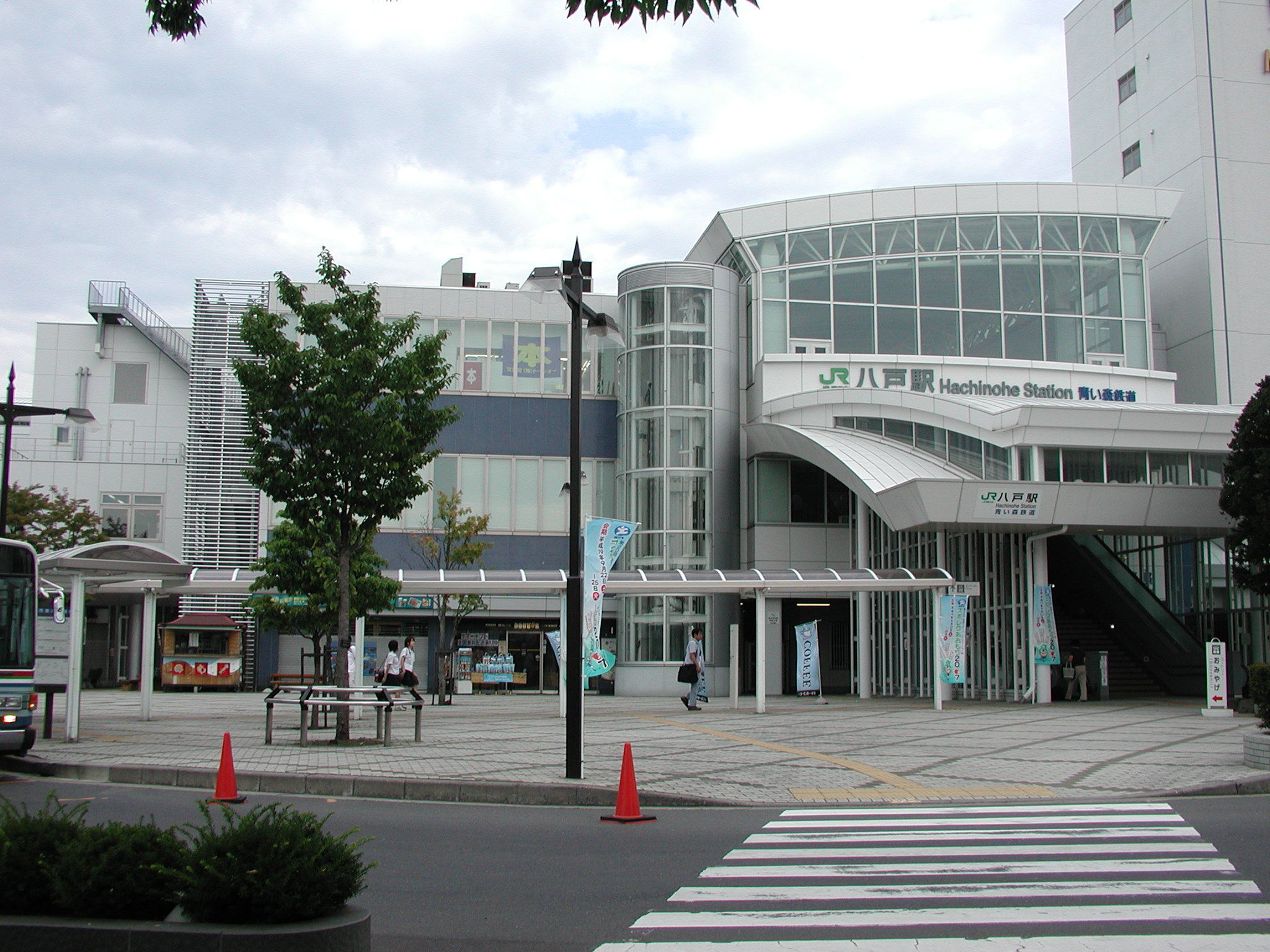 Hachinohe Station of East Entrance